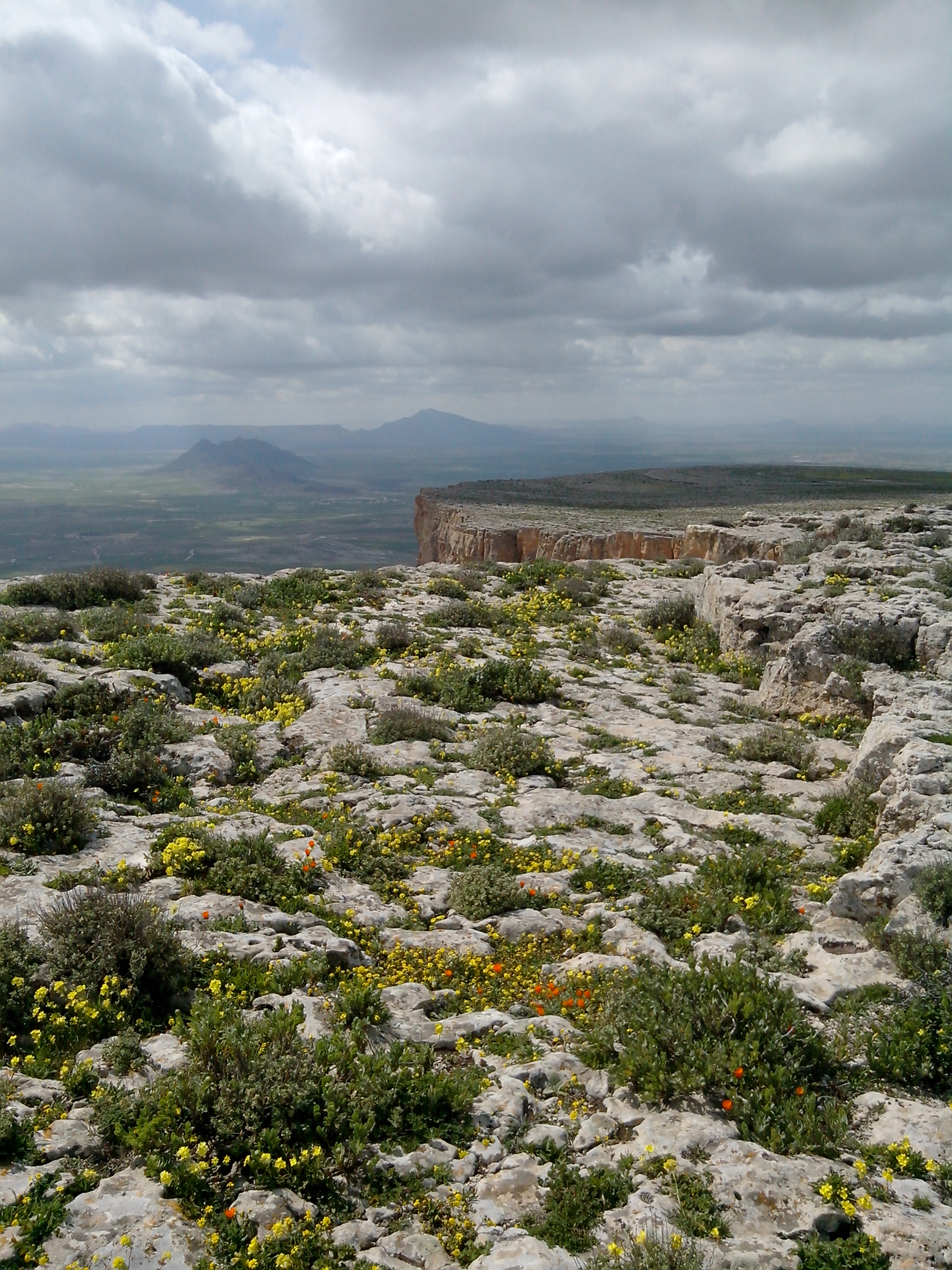 Jughurta Mountain